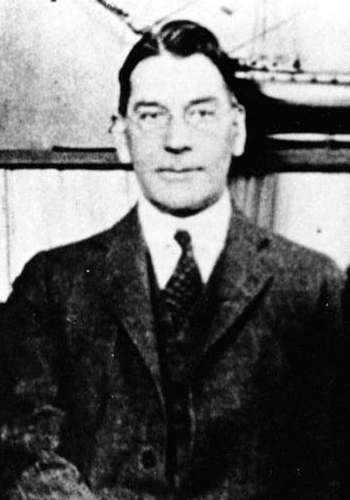 U.S. Secretary of the Navy "Curtis Dwight Wilbur" photographed at the Navy Department, Washington, DC, circa 1925-28.